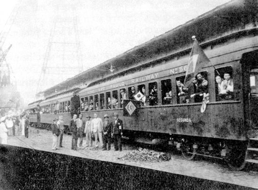 Train with japanese immigrants that disembarked in Port of Santos and would travel to São Paulo City